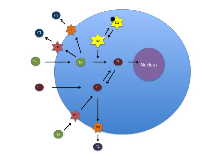 Deiodinase 1,2 and 3 regulate intracellular levels of T3 and T4. Deiodinase 2 converts T4 to T3, Deiodinase 3 deactivates T4 and T3, and Deiodinase 1 activates T4 to T3 or deactivates it. Ubiquitination regulates Deiodinase 2 activity through deactivation.